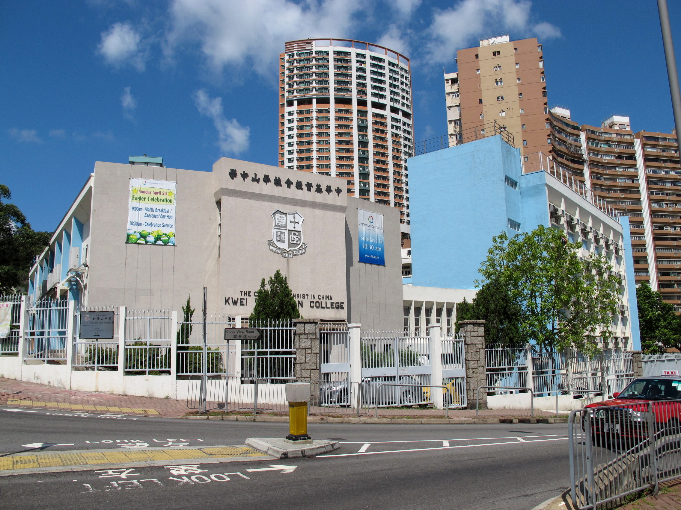 The Church of Christ in China Kwei Wah Shan College